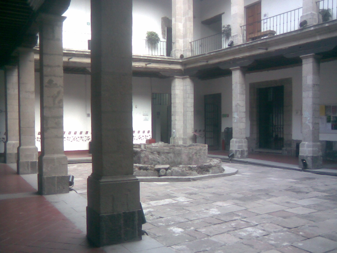 Fundacion's Yard in UCSJ